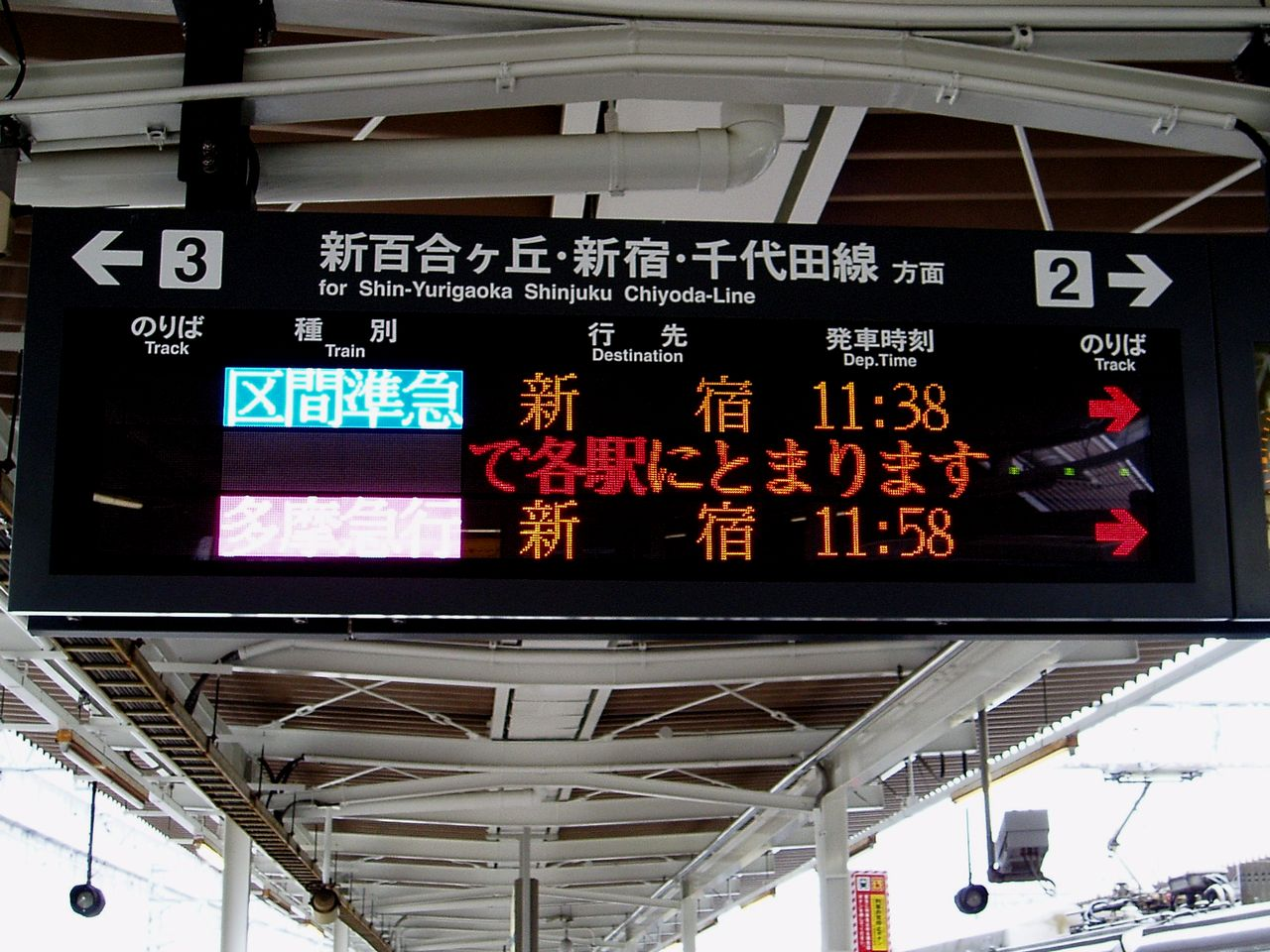 With the train schedules out of order, an information board at a Odakyu Tama Line station shows the Tama Express runs no further than Shinjuku